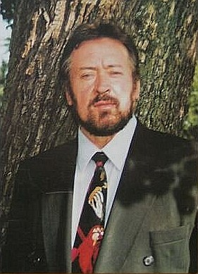 Kalchmair Franz-Helmut